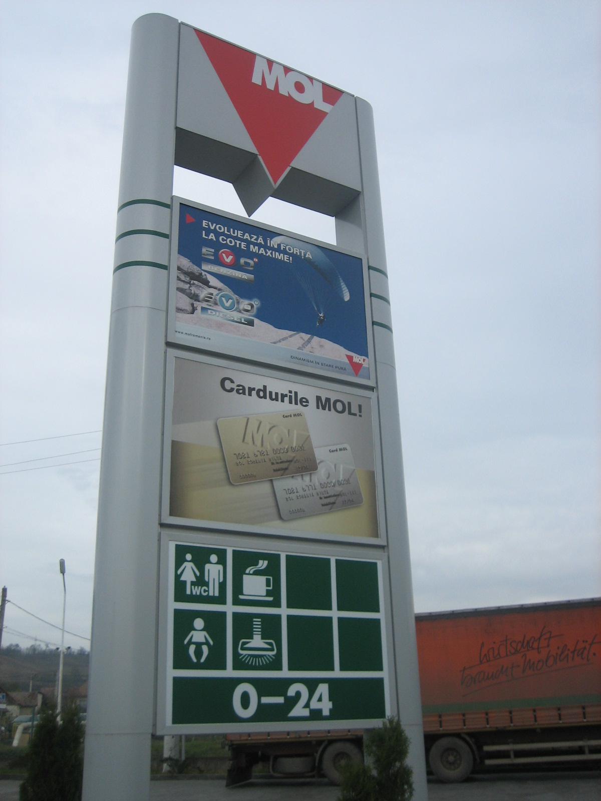 MOL petrol station in Luduş, Transylvania